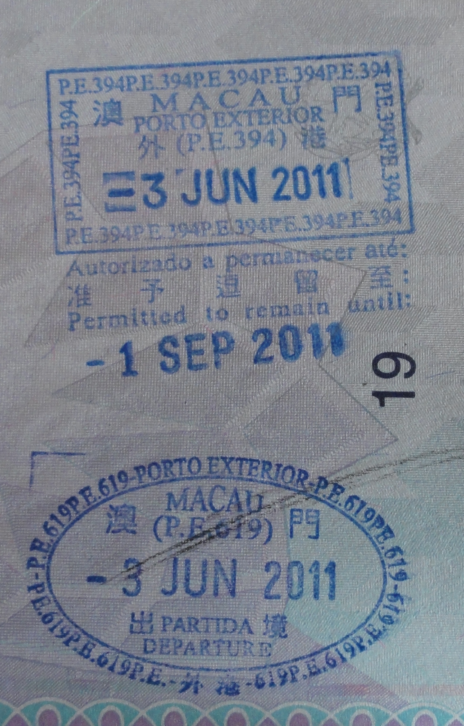 Macau SAR passport stamp